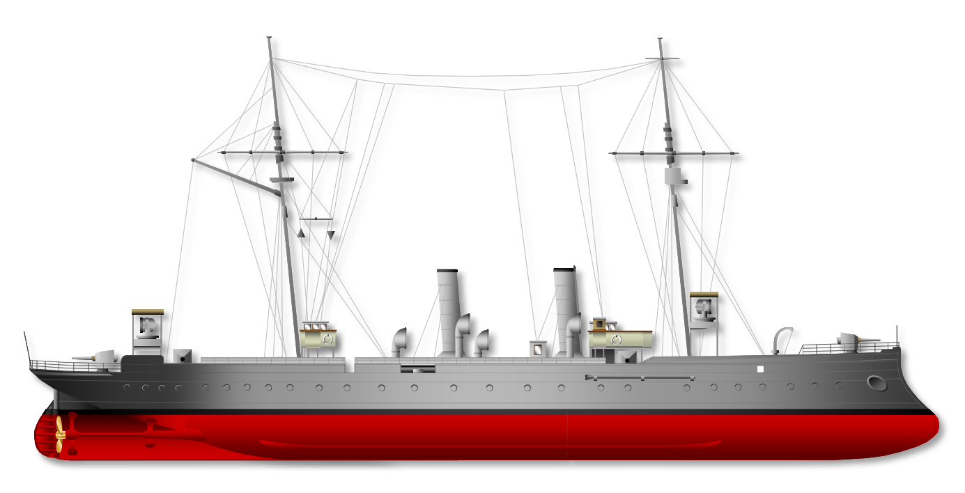 SMS Blitz (1882), Aviso der Kaiserlichen Marine, Light Cruiser of the Imperial German Navy